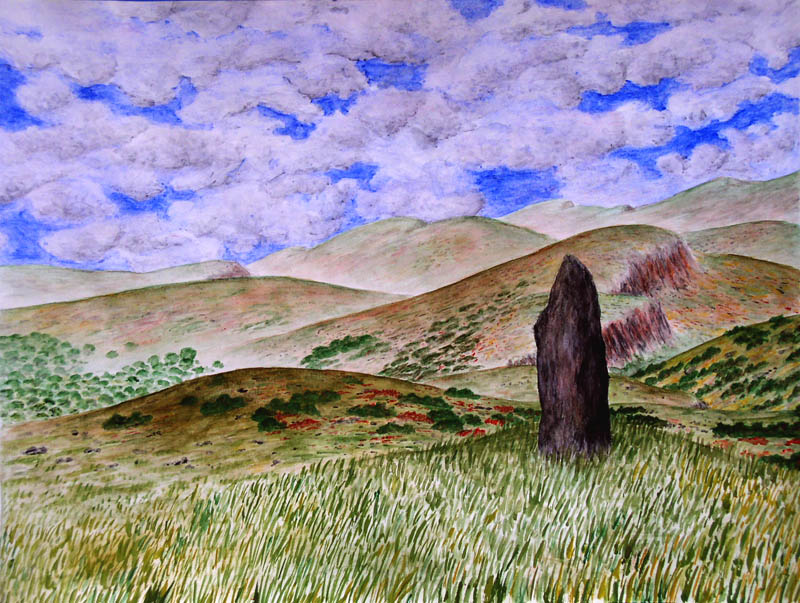 Enedwaith, a region in the south of Eriador, between the kingdoms of Gondor and Arnor